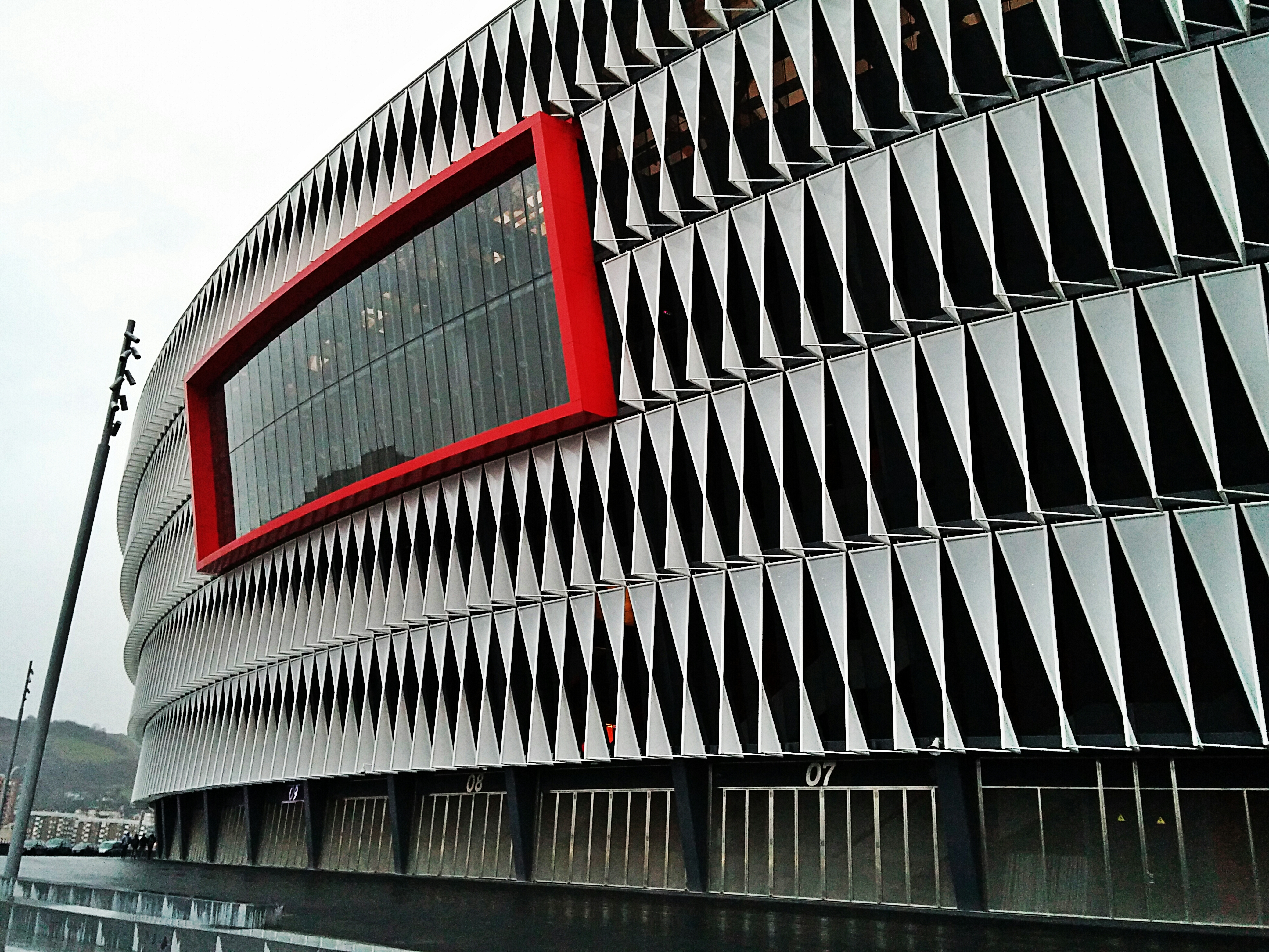 New San Mames stadium